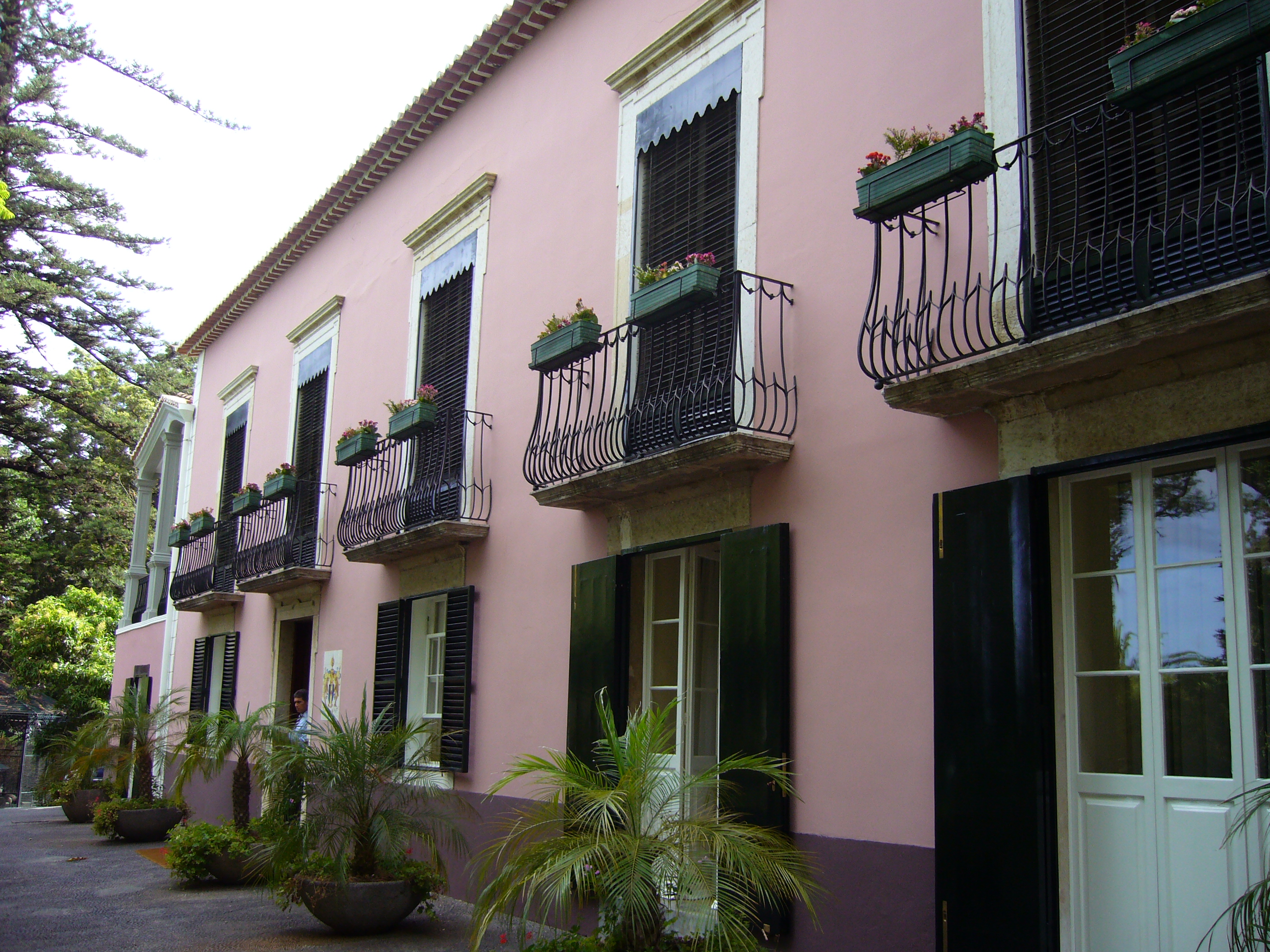 Quinta Vigia (Funchal - Madeira)